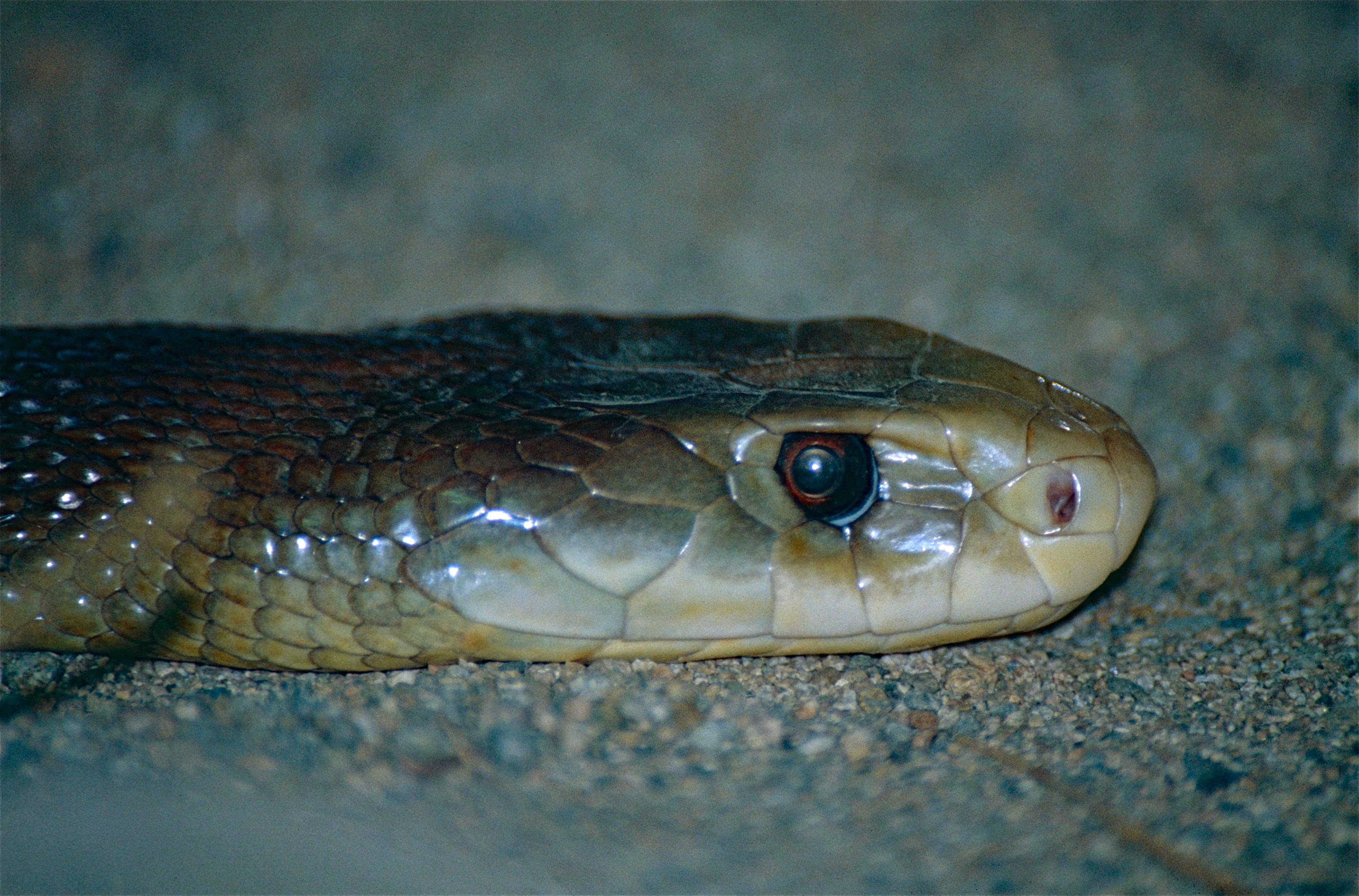 Australia Zoo, Beerwah, South Queensland, AUSTRALIA Scanned Slide from Dec 2000